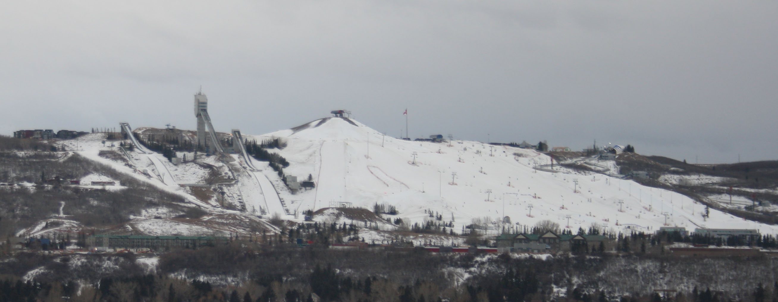 Canada Olympic Park